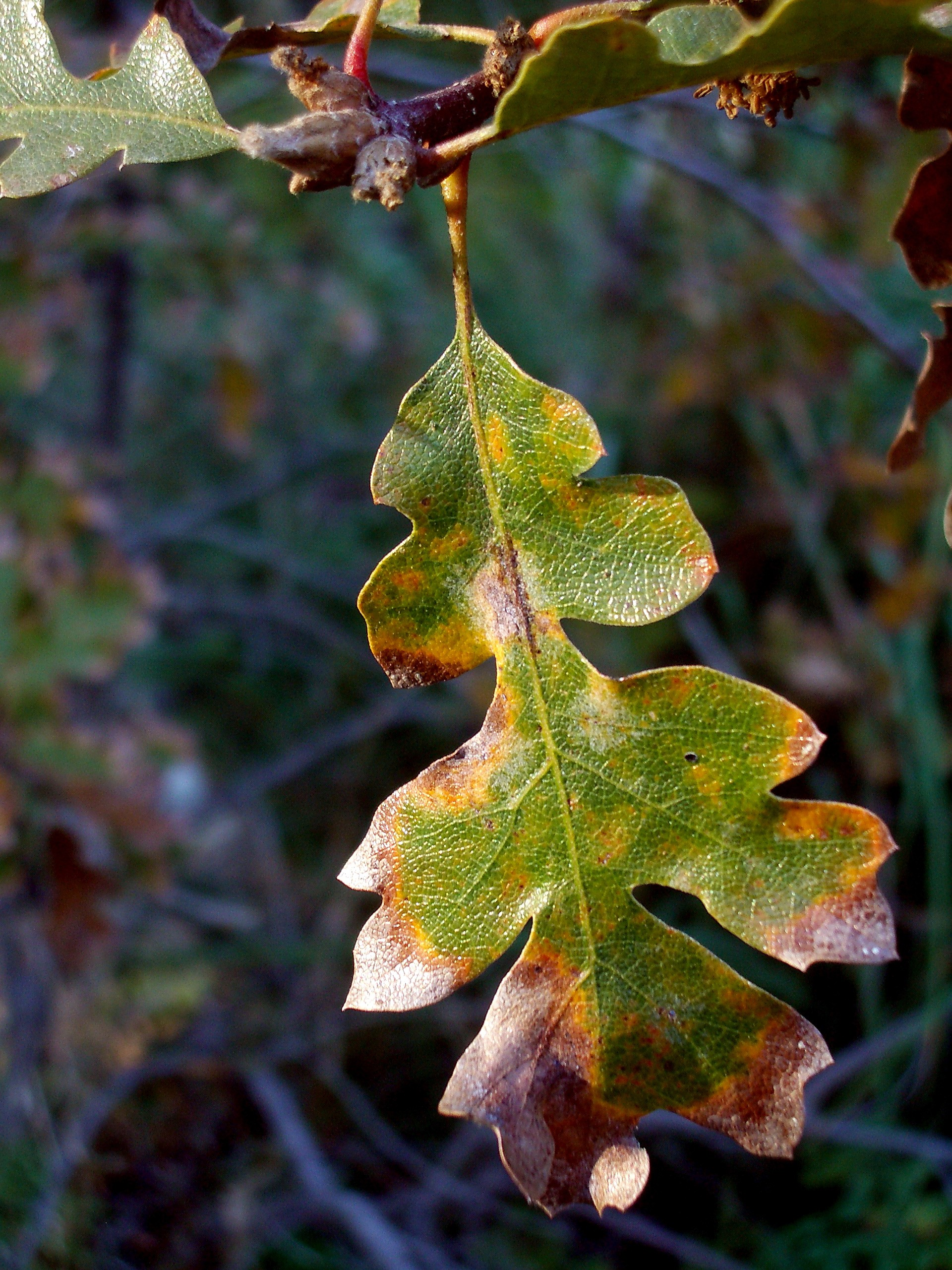 The Garry Oak (Quercus garryana), also known as Oregon White Oak or Oregon Oak, has a range from southern California to extreme southwestern British Columbia. Rancho Santa Ana Botanic Garden - Claremont ,California